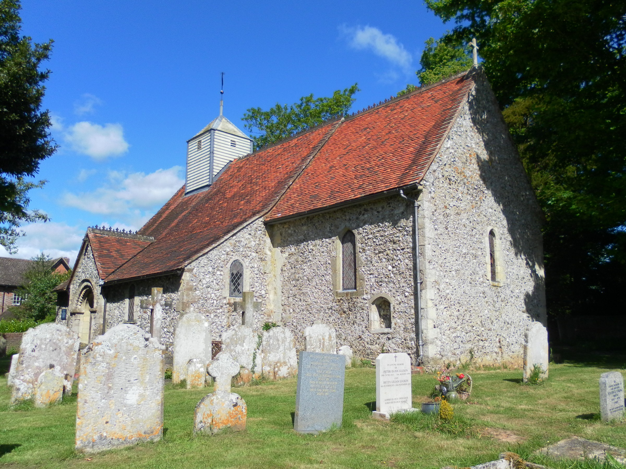 Former St Mary Magdalene's Church, Tortington, Arun District, West Sussex, England. An Anglican church declared redundant in 1978. Listed at Grade II by English Heritage (NHLE Code 1222209)